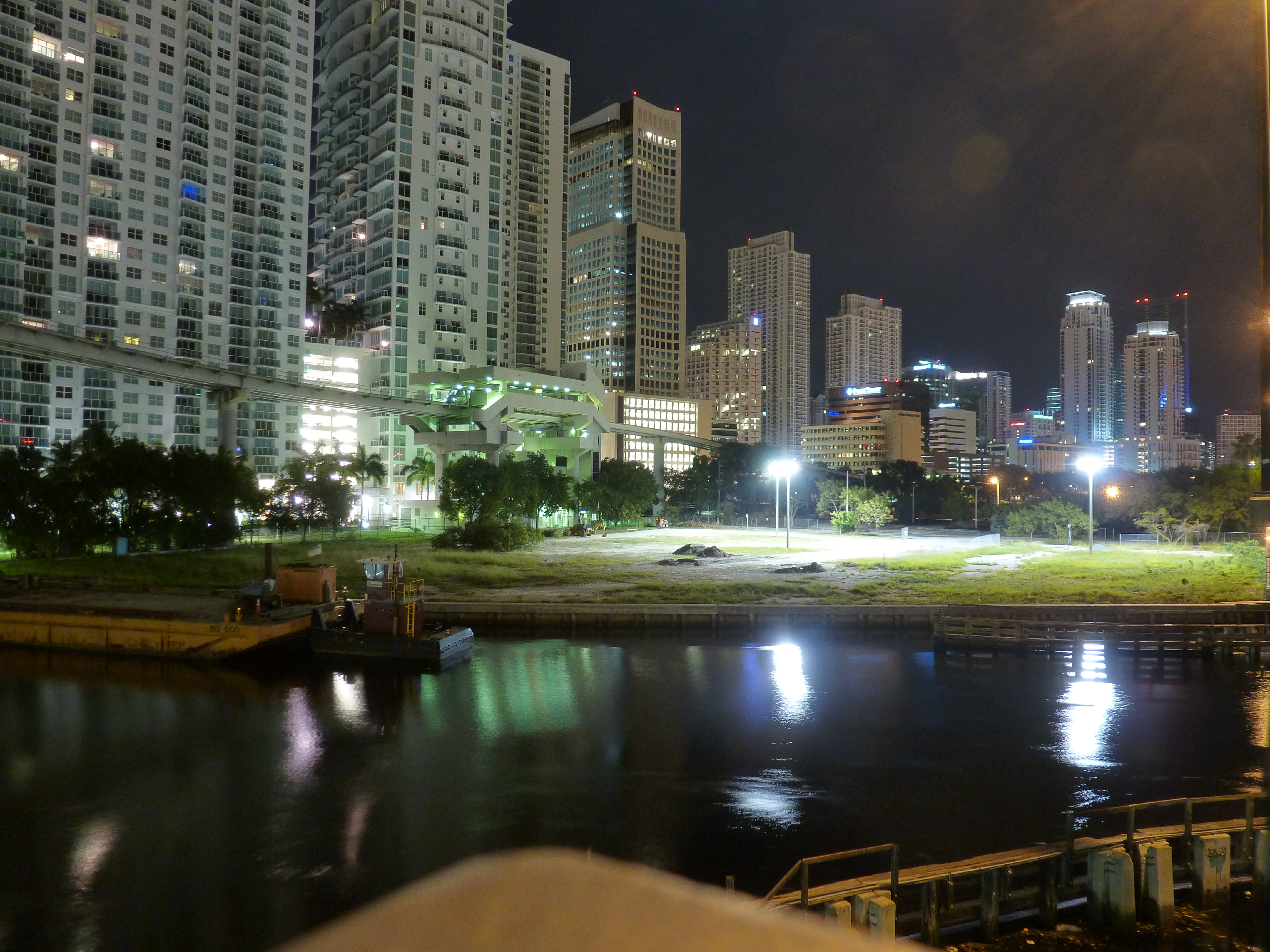 The empty plots from the Miami River down to eighth street along the Metromover before Brickell City Centre